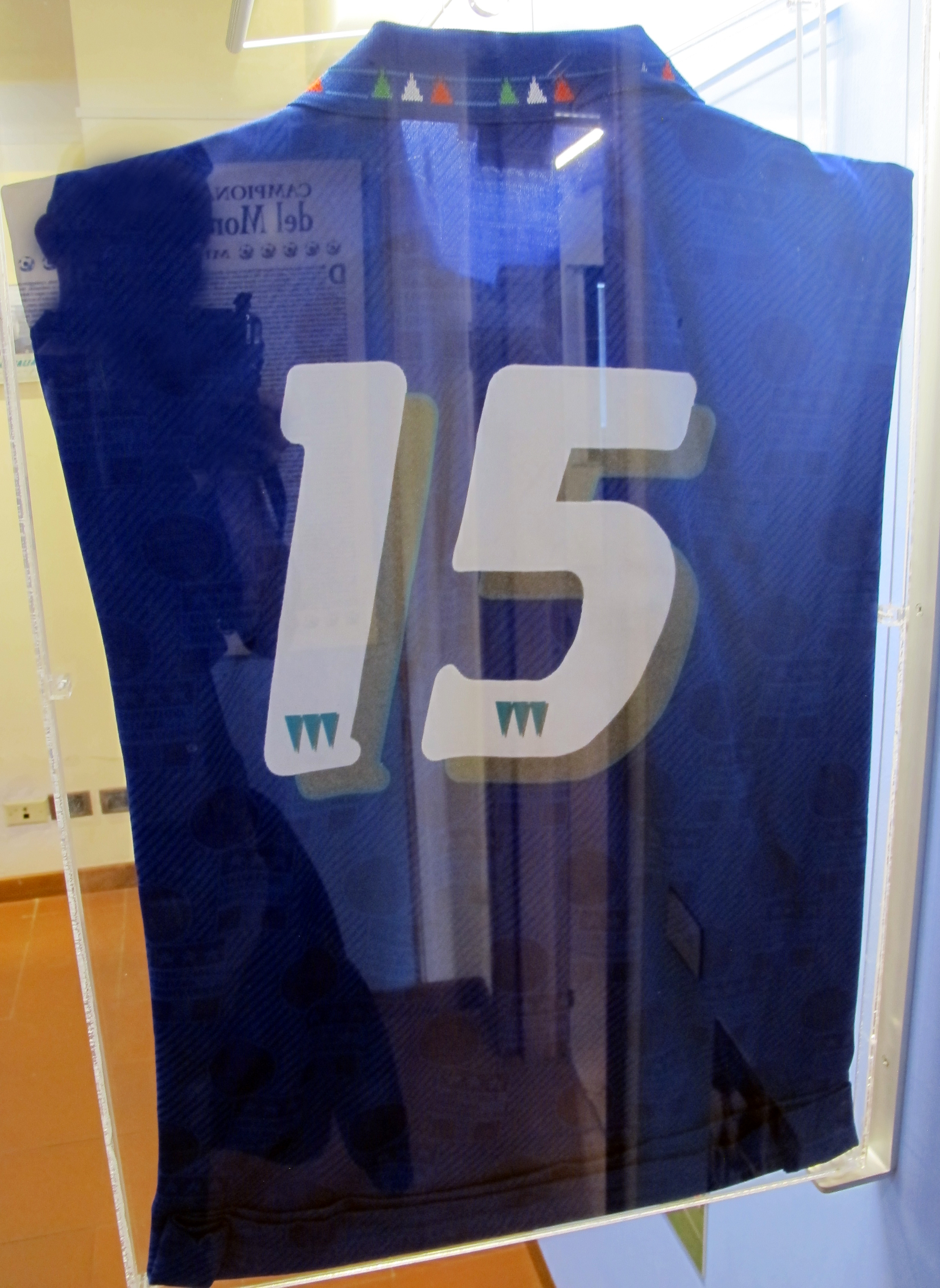 Collections of the Museo del Calcio (Florence)